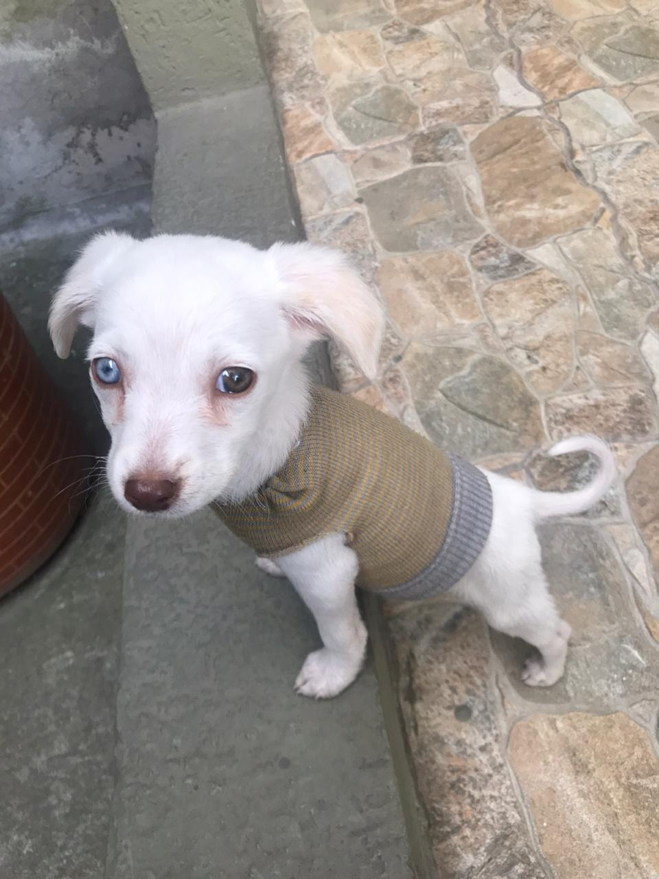 Laeila Heterochromy